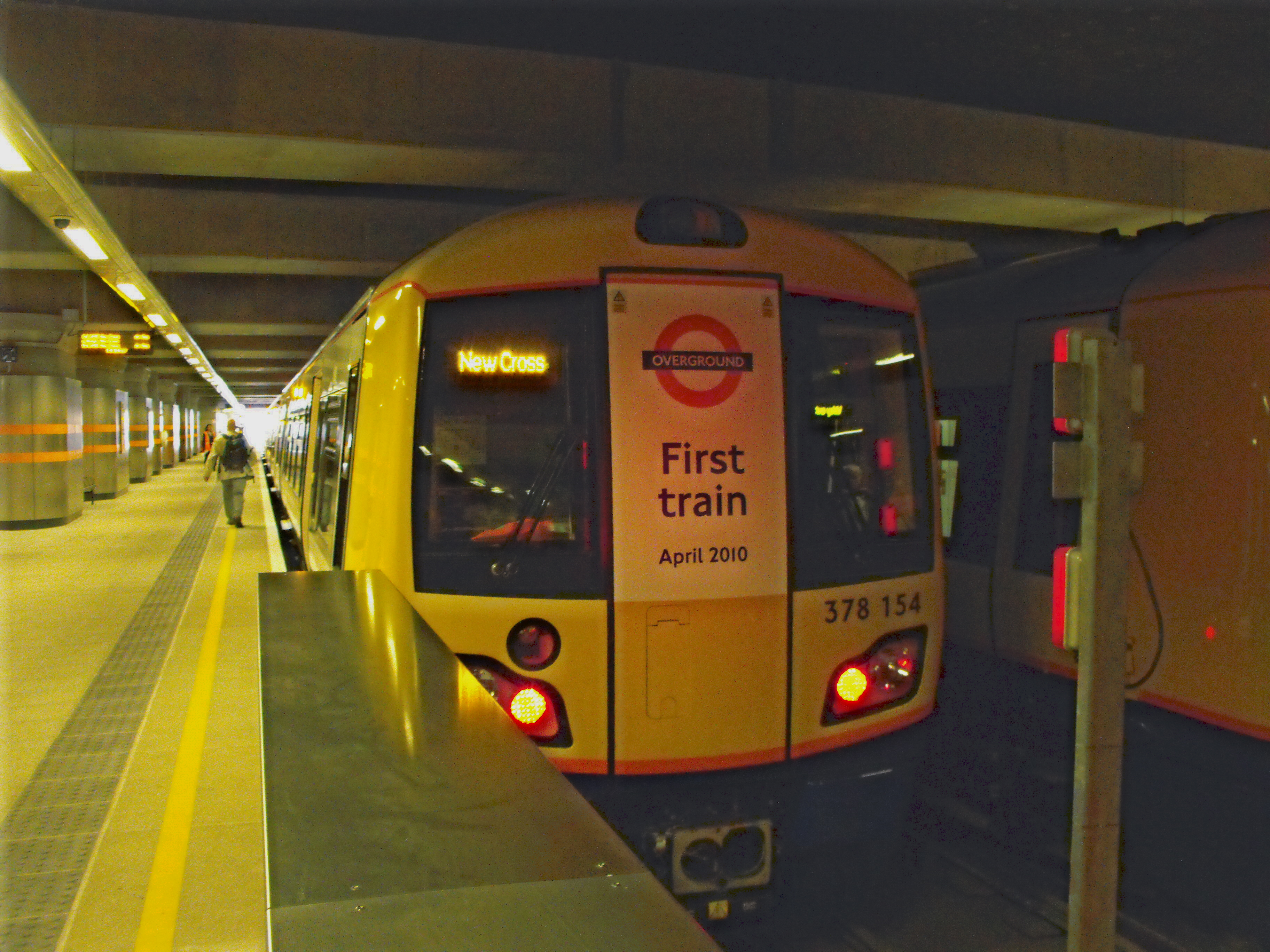 The rail stock used for the first train on the preview service 27 April 2010